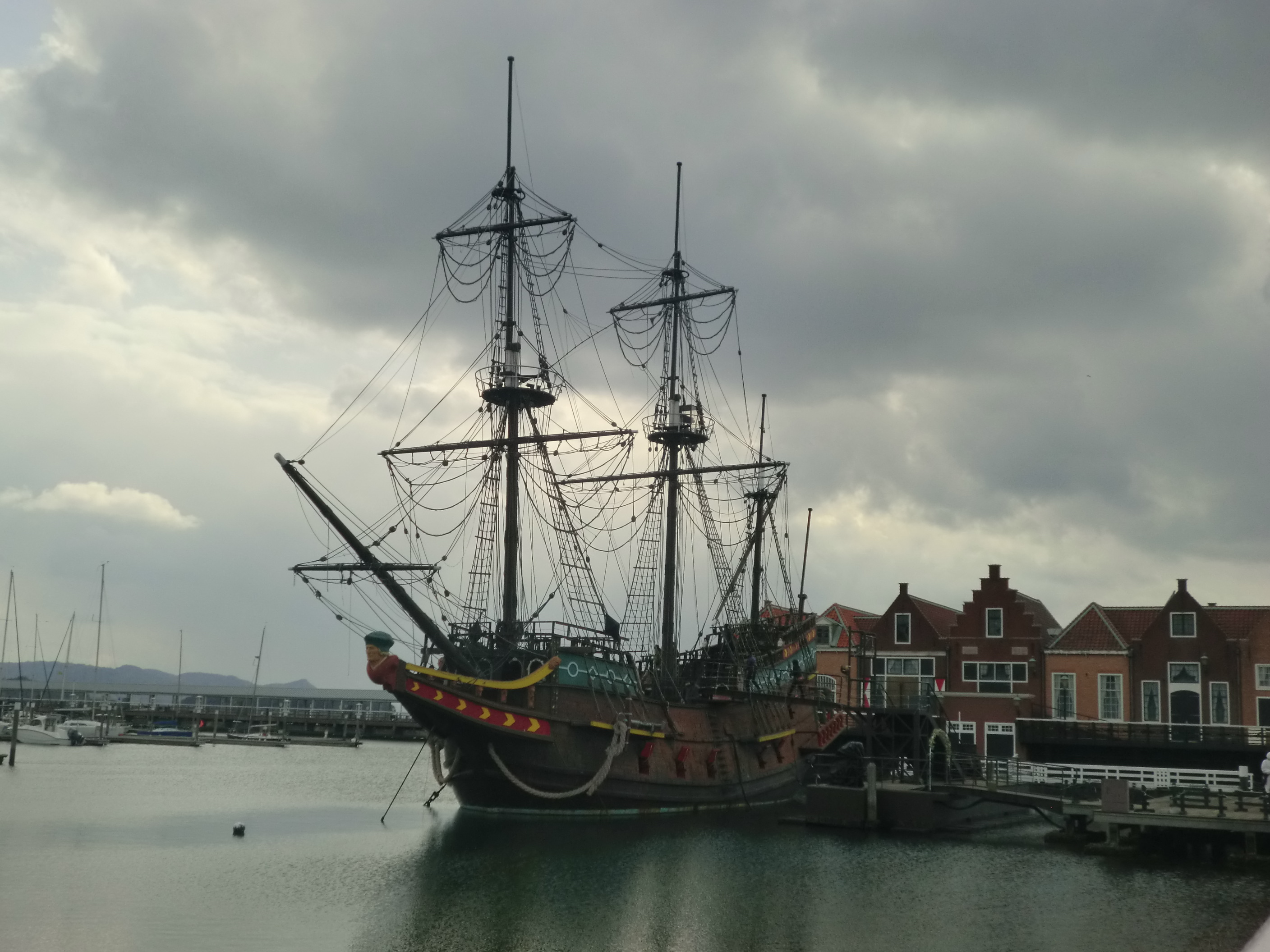 Reproducted "De Liefde"(Dutch ship) at Huis Ten Bosch(Themepark) in Sasebo,Nagasaki,Japan.